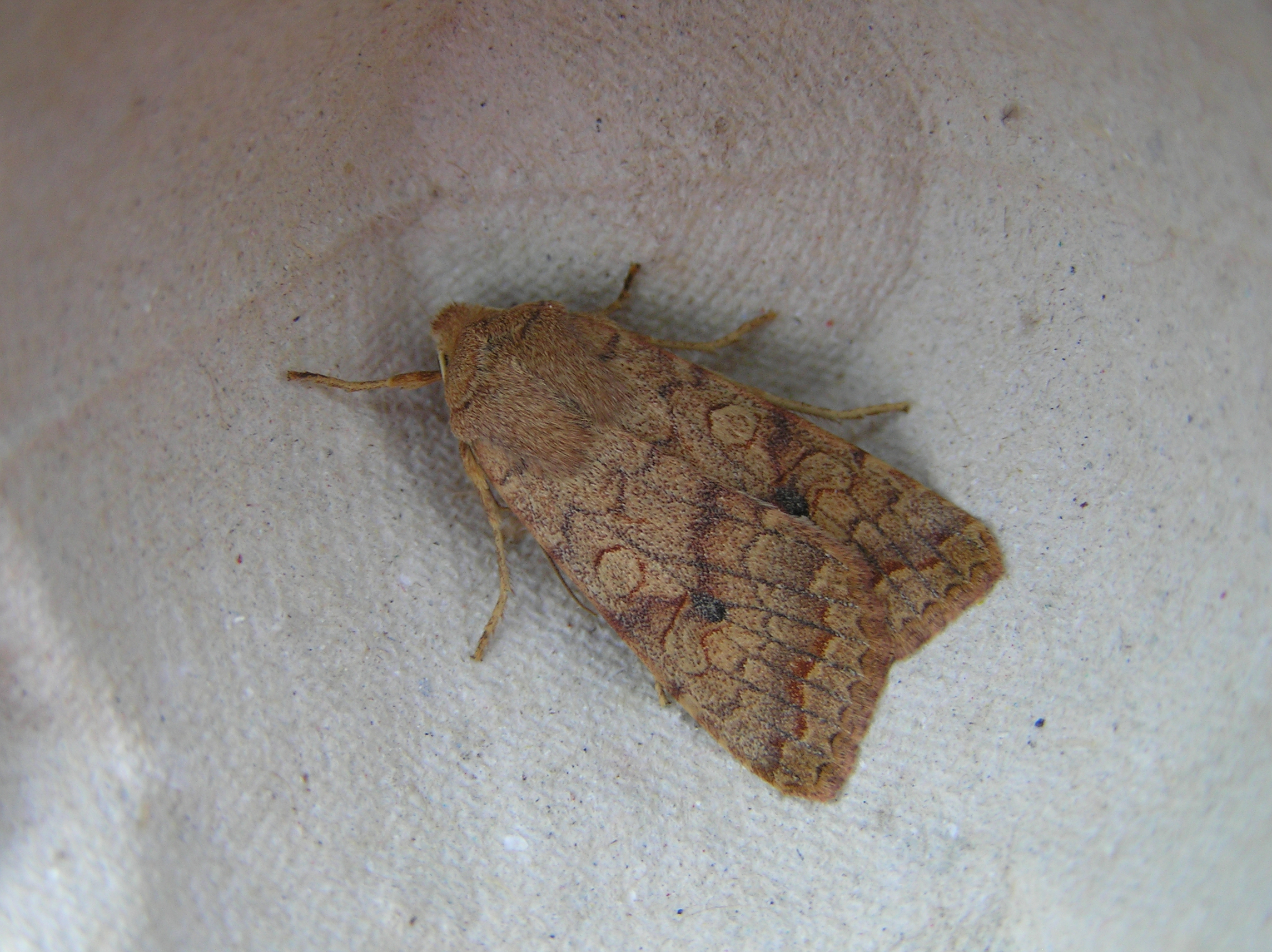 Agrochola circellaris (Goes, the Netherlands)